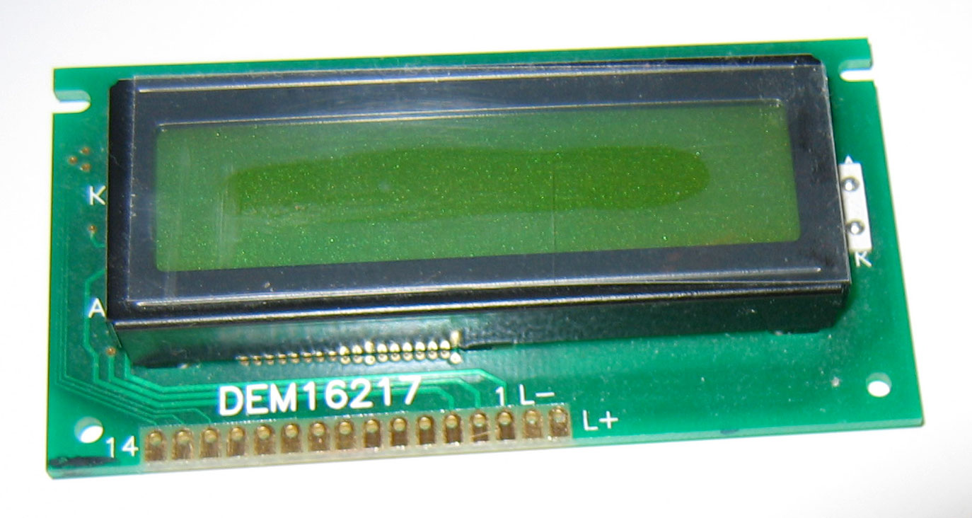 This is a general-purpose alphanumeric LCD